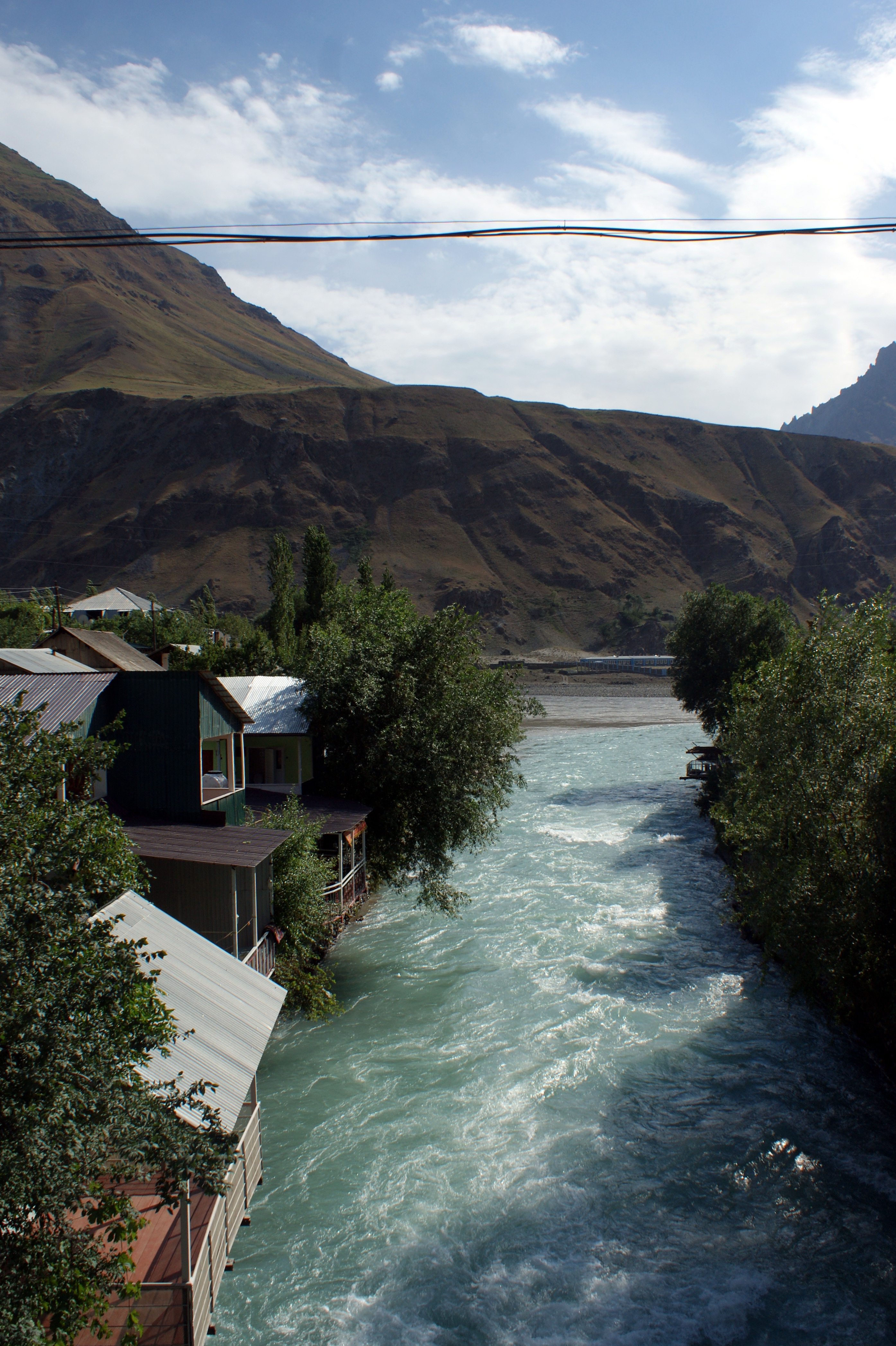 View from Bridge in Qal'ai Khumb towards south / Afghanistan Тоҷикӣ: Хумбоб